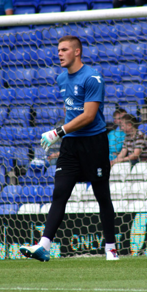 Photo of Jack Butland against Royal Antwerp.